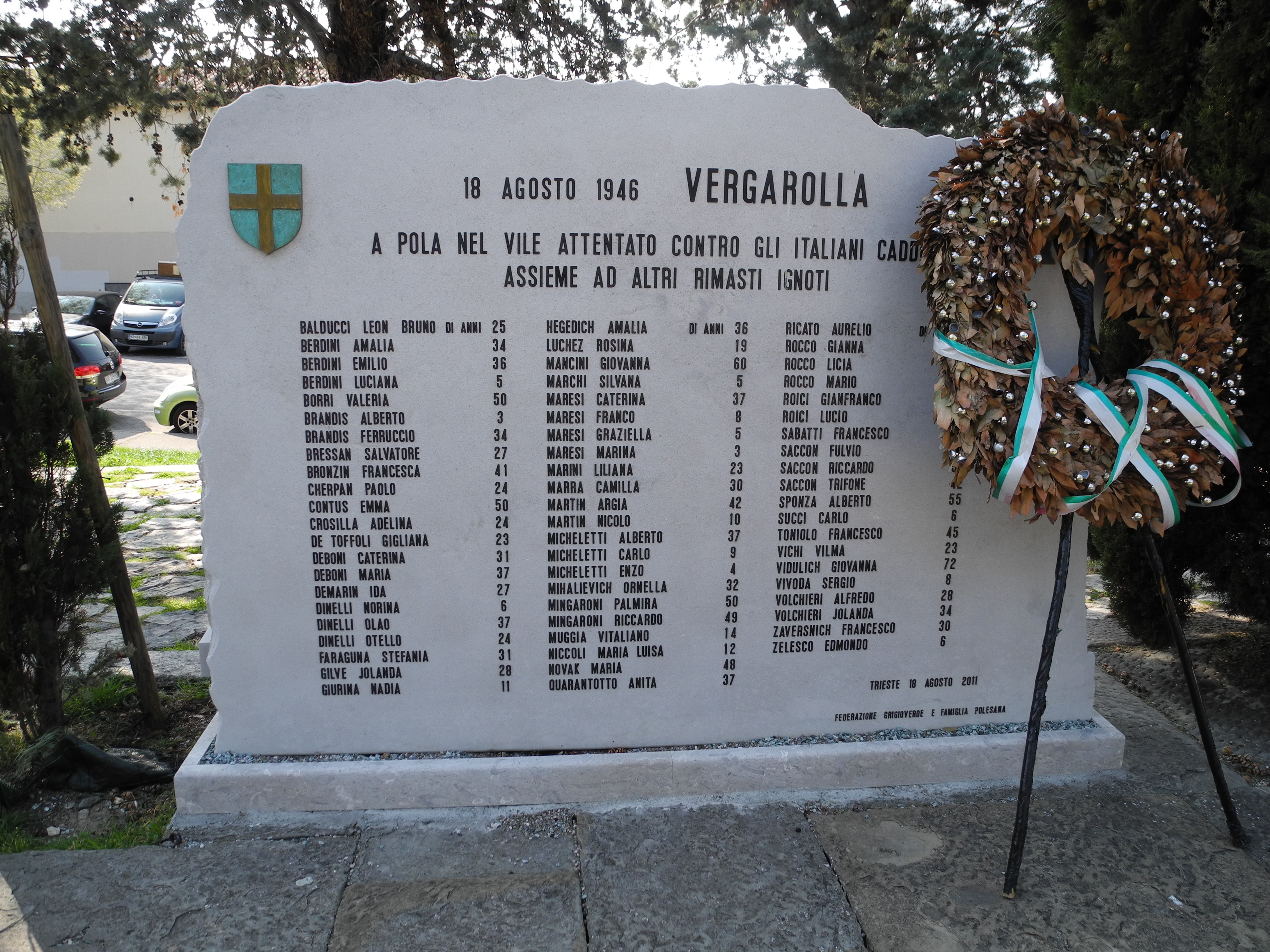 Trieste (Italy) - Monument to the victims of Vergarolla Explosion